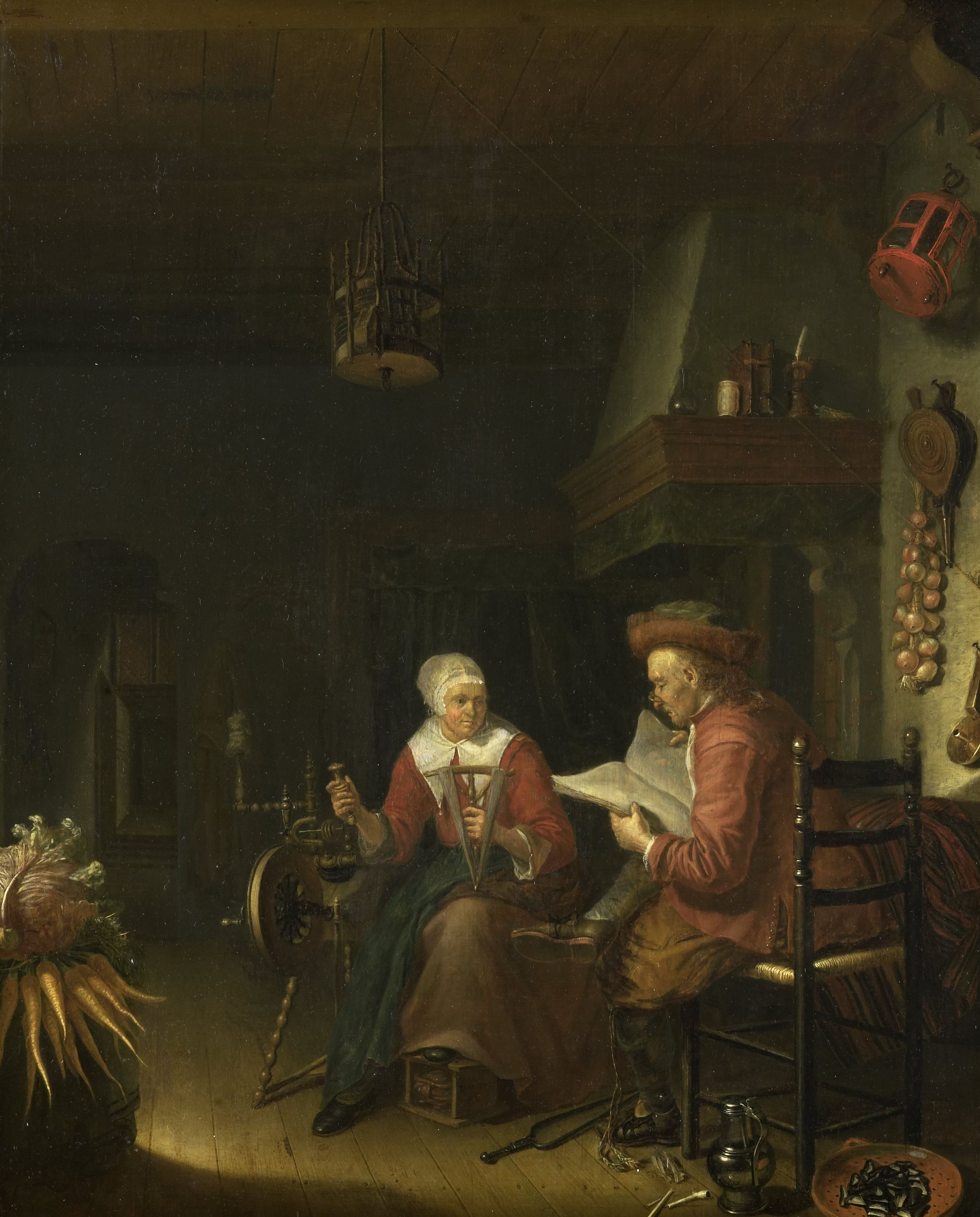 Interior with a man reading from a book resting on his knee. He is sitting next to his wife who is sitting next to a spinning wheel while holding a reel. On the flor lie a colander with mussles, a pipe and a jug; to the left a bundle of carrots. A bird cage is hanging from the ceiling; to the right a bundle of unions, a pair of bellows, a candleholder and a lantern are hanging from the wall.